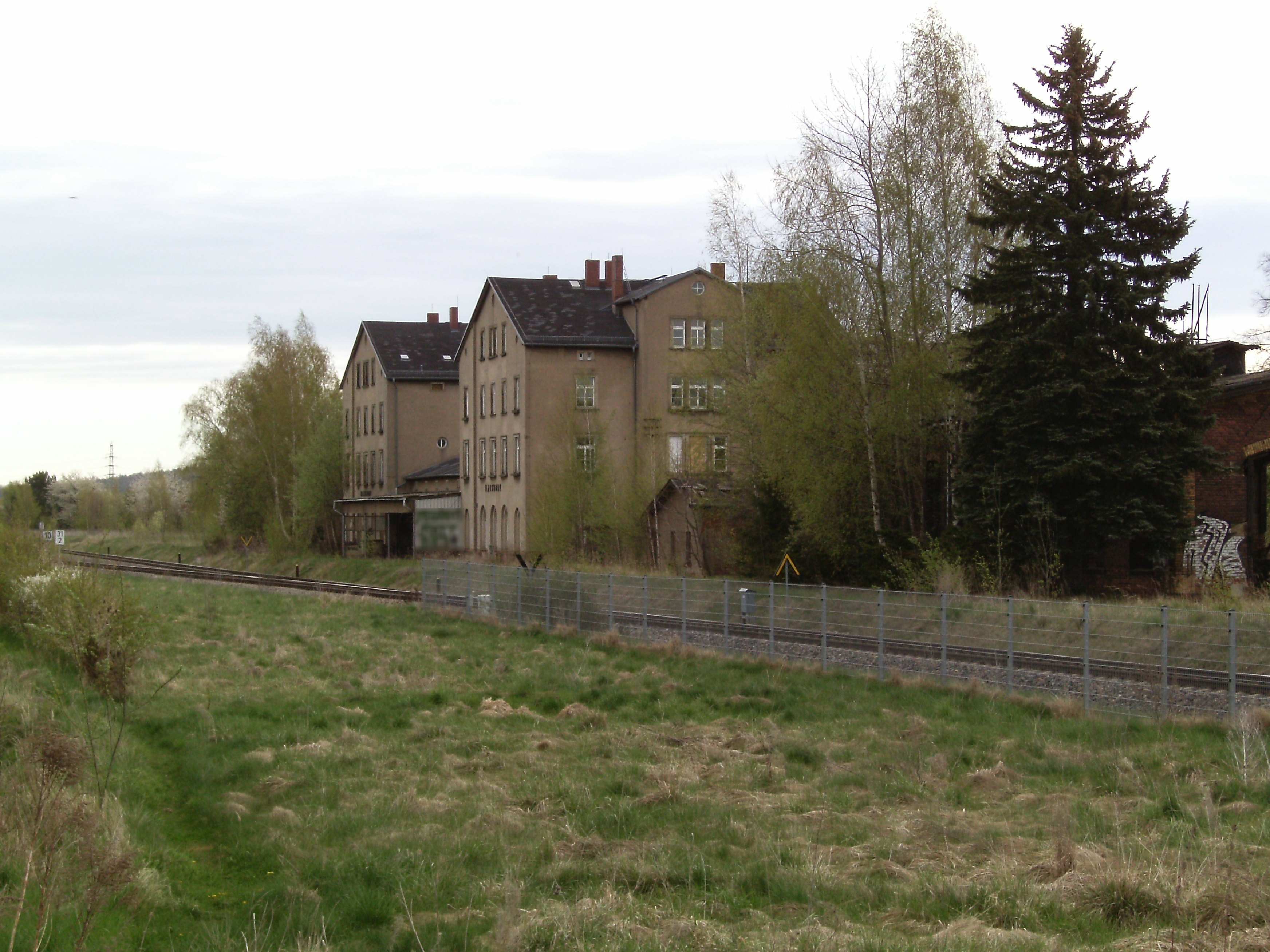 Old train station of Narsdorf (Leipzig district, Saxony)